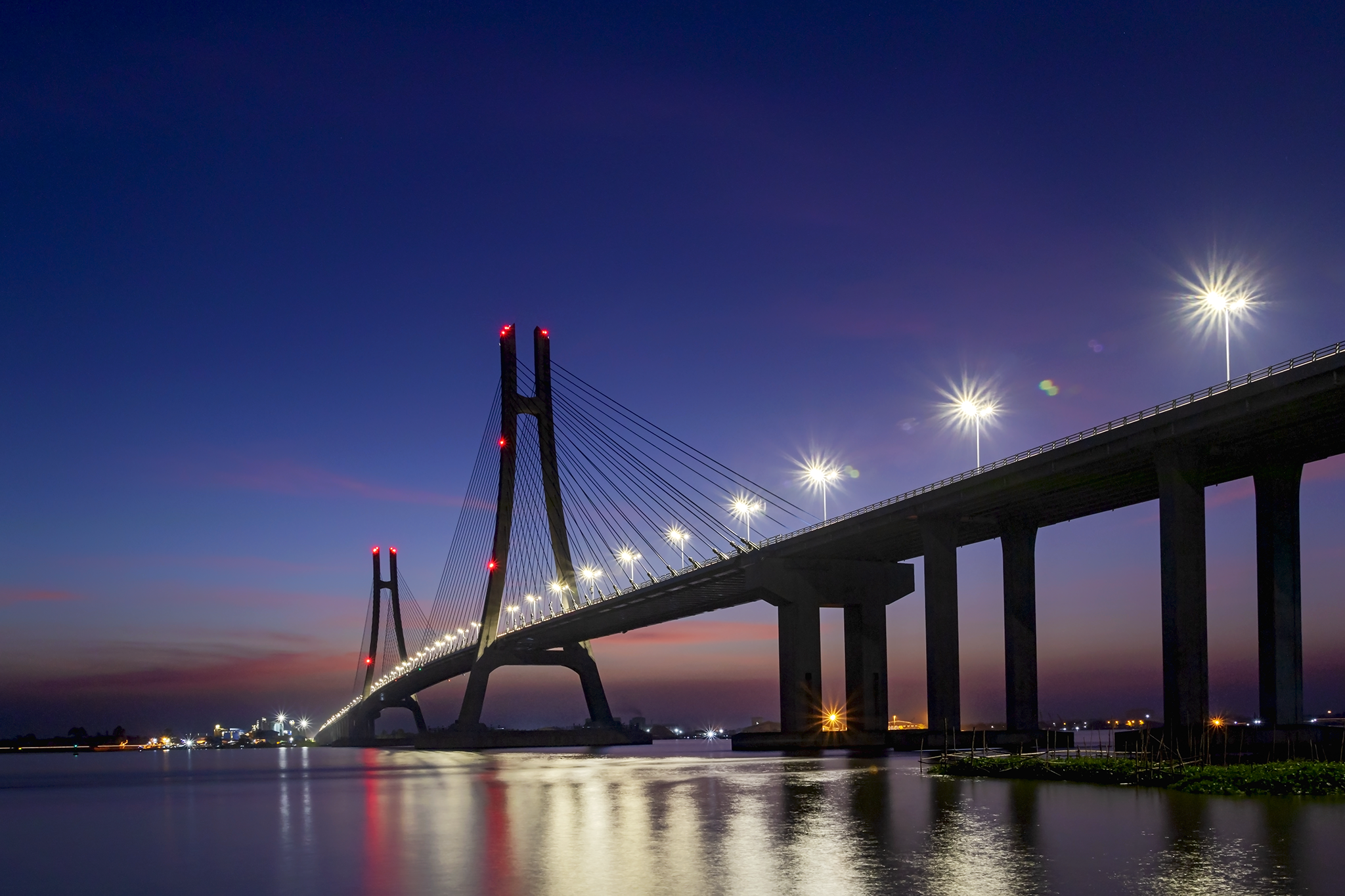 Vam Cong Bridge